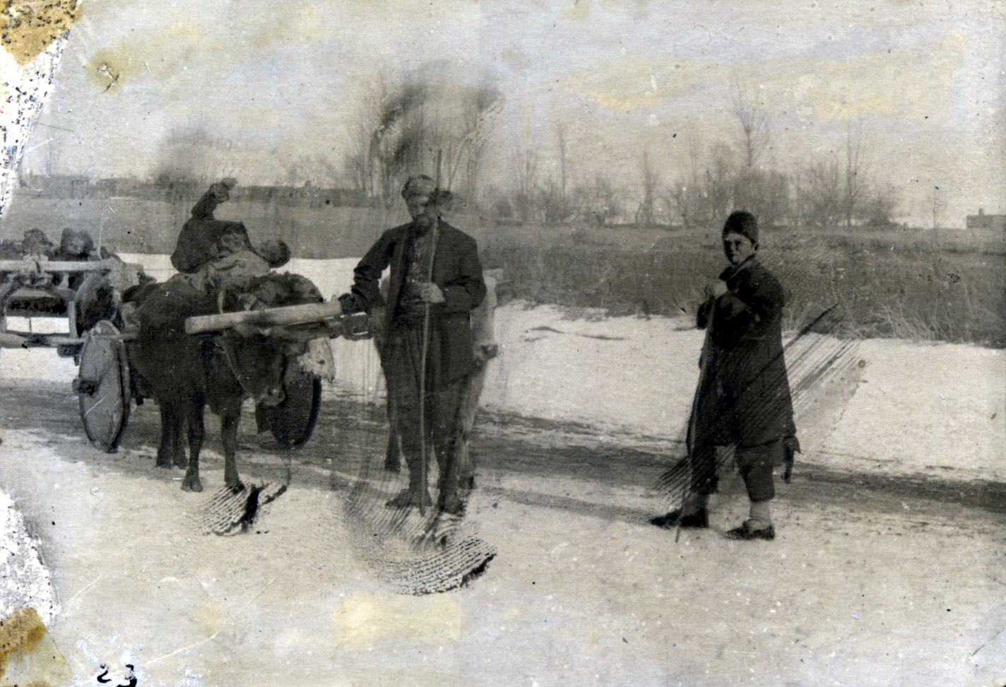 The corpses of the muslims, captivated in Erzincan’s Armenian district and later burned alive on February 12, 1918, are being carried to a cemetery. at Caucasus Campaign in WWI